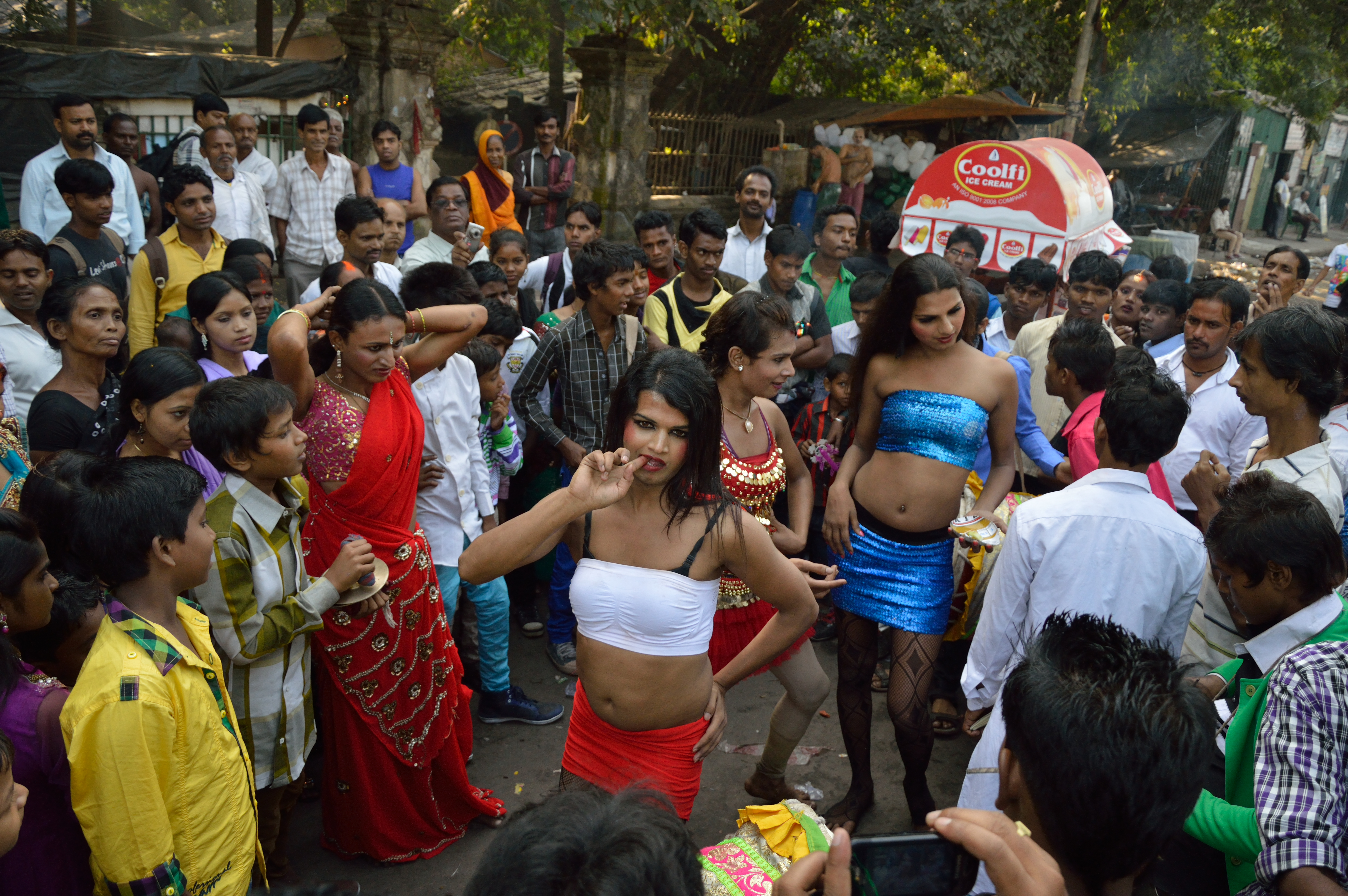 Photographed during the Chhath puja ceremony (festival dedicated to the Sun god) at the bank of river Hooghly, Kolkata. This Hindu festival regarded mainly by the people of Indian states Bihar, Uttar Pradesh, Jharkhand etc.